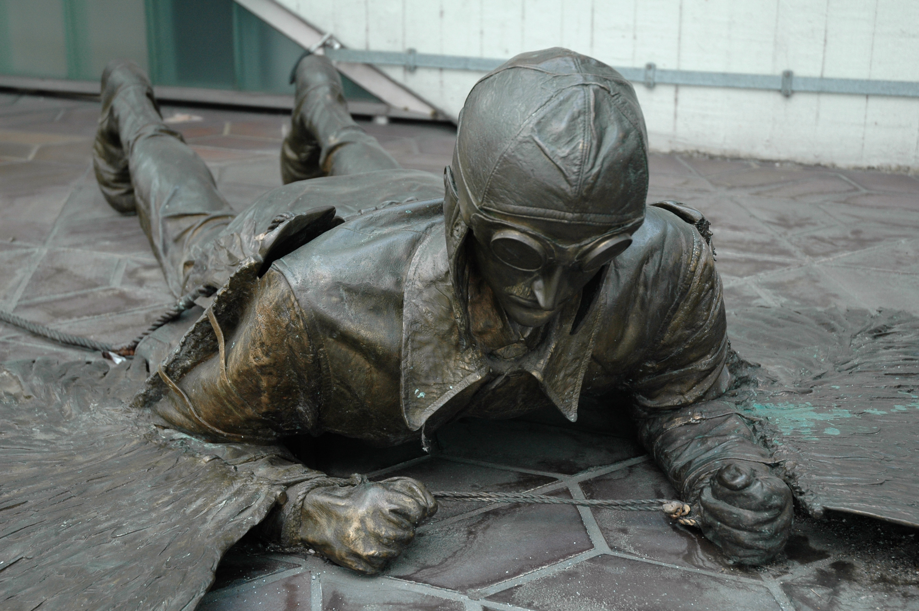 "The fall of Daedalus and Icarus", Rolf Scholz, 1985, at Berlin Tegel Airport. The sculpture is a reminder of Otto Lilienthal and his accident with his flying device.